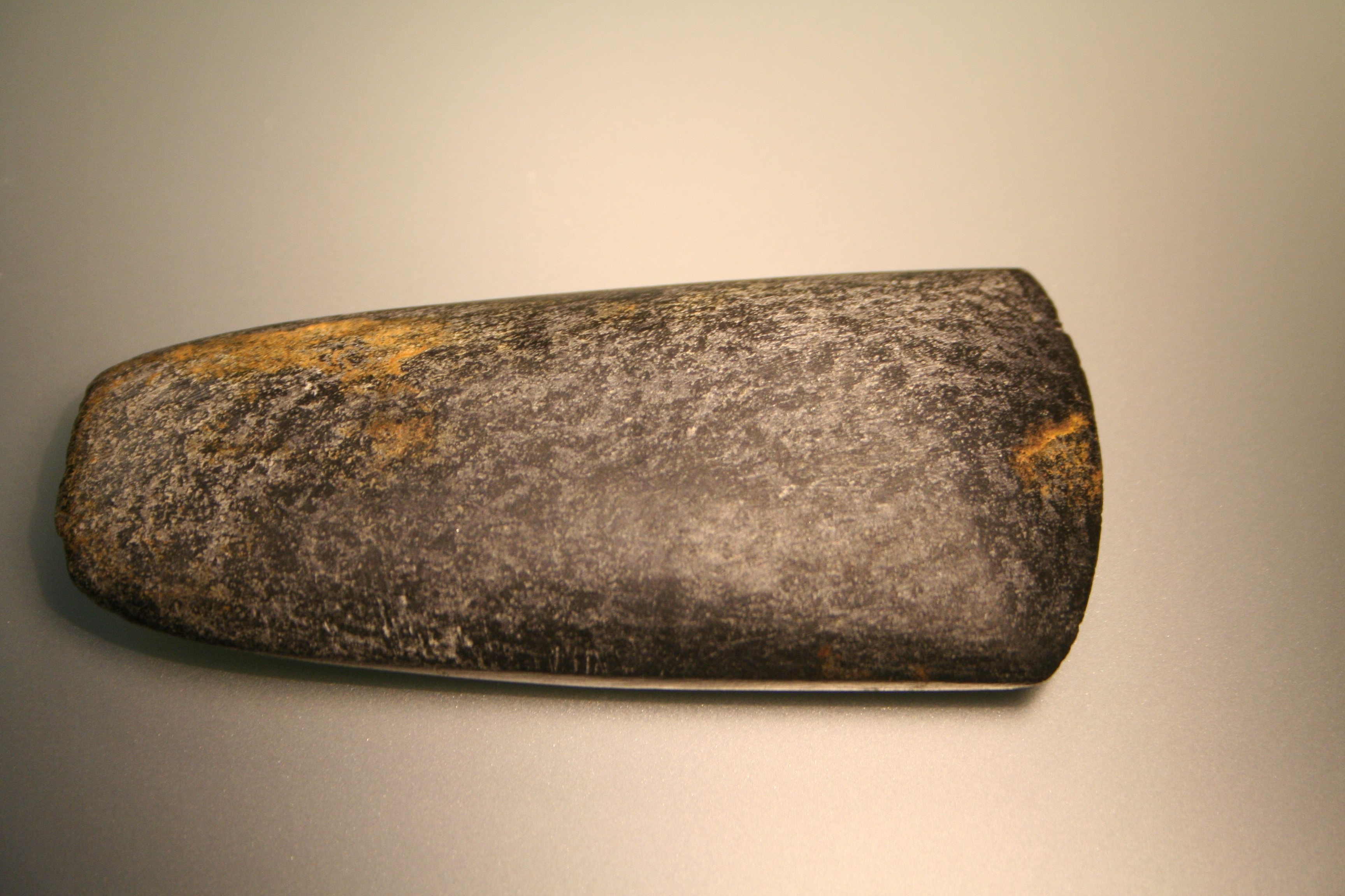 Stone axe, found inside a Linear Pottery culture well at Scheuditz-Altscherbitz